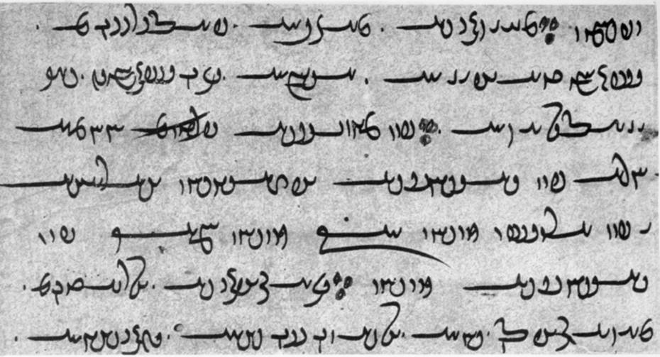 Bodleian Library, MS J2 fol. 175